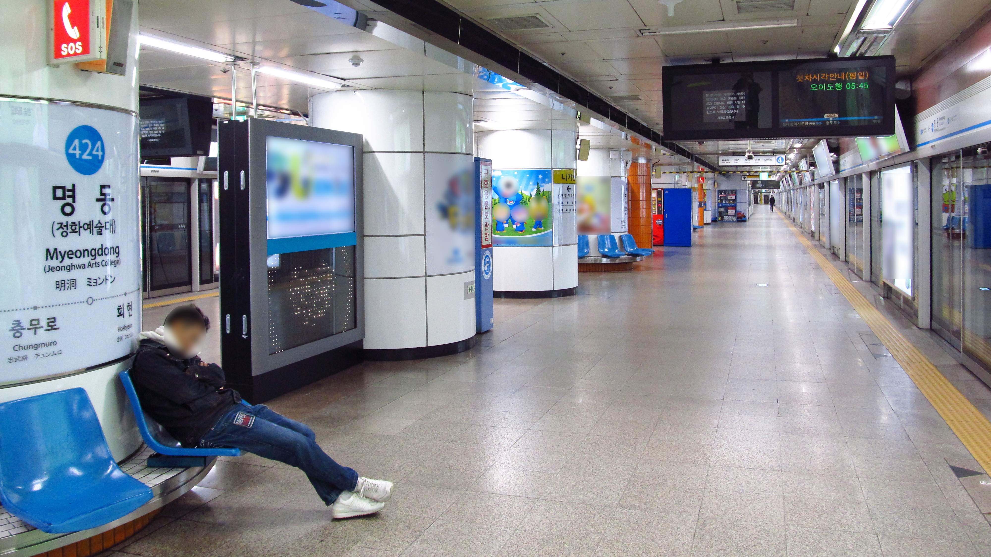 The platform at Myeongdong Station on Seoul Subway Line 4 in Jung-gu, Seoul, Republic of Korea(South Korea)